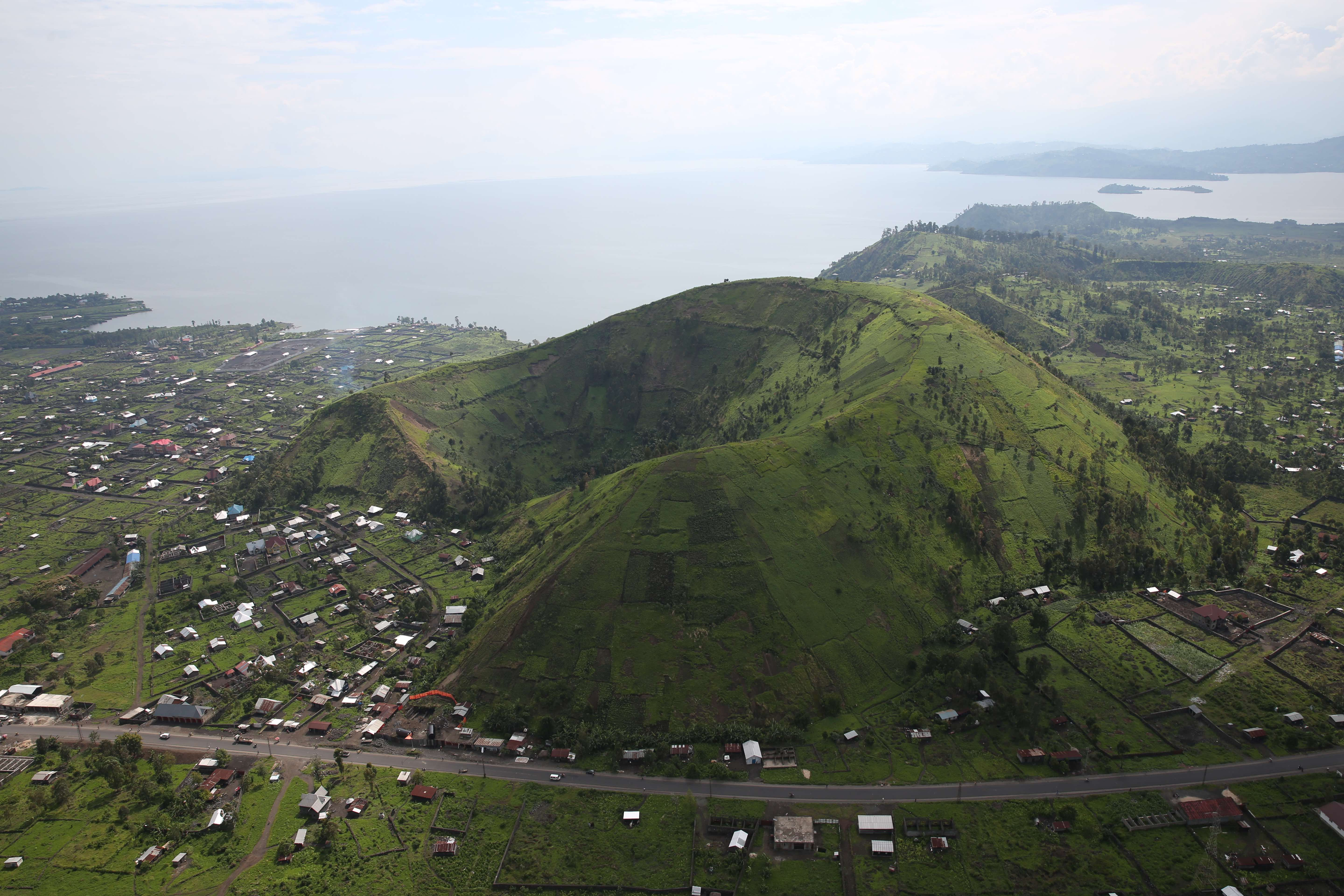 Nord-Kivu, RD Congo : Vue sur un cratère aux abords de la ville de Goma. Photo MONUSCO/Abel Kavanagh == North Kivu, DR Congo: View of a crater on the outskirts of the city of Goma. Photo MONUSCO/Abel Kavanagh